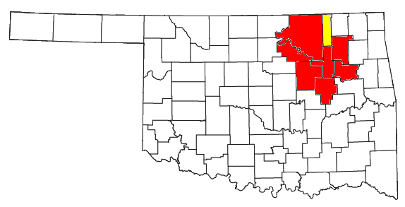 Locator map of the Tulsa Metropolitan Statistical Area in the northeastern part of the U.S. state of Oklahoma, highlighted in red. Yellow denotes Washington County, which is added to the metro area to form the Tulsa-Bartlesville CSA.